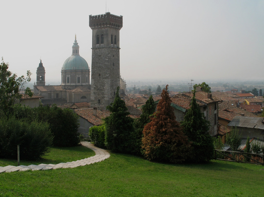 View from above the town of Lonato near Lake Garda in Italy, Cathedral and Torro Maestra